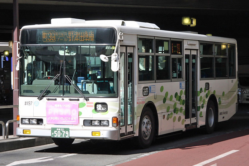 Kanagawa Chuo Kotsu's route bus (Car No.ま197 / Mitsubishi Fuso Aero Star KC-MP717M / MBM body) at Machida Bus Center, Machida, Tokyo, Japan